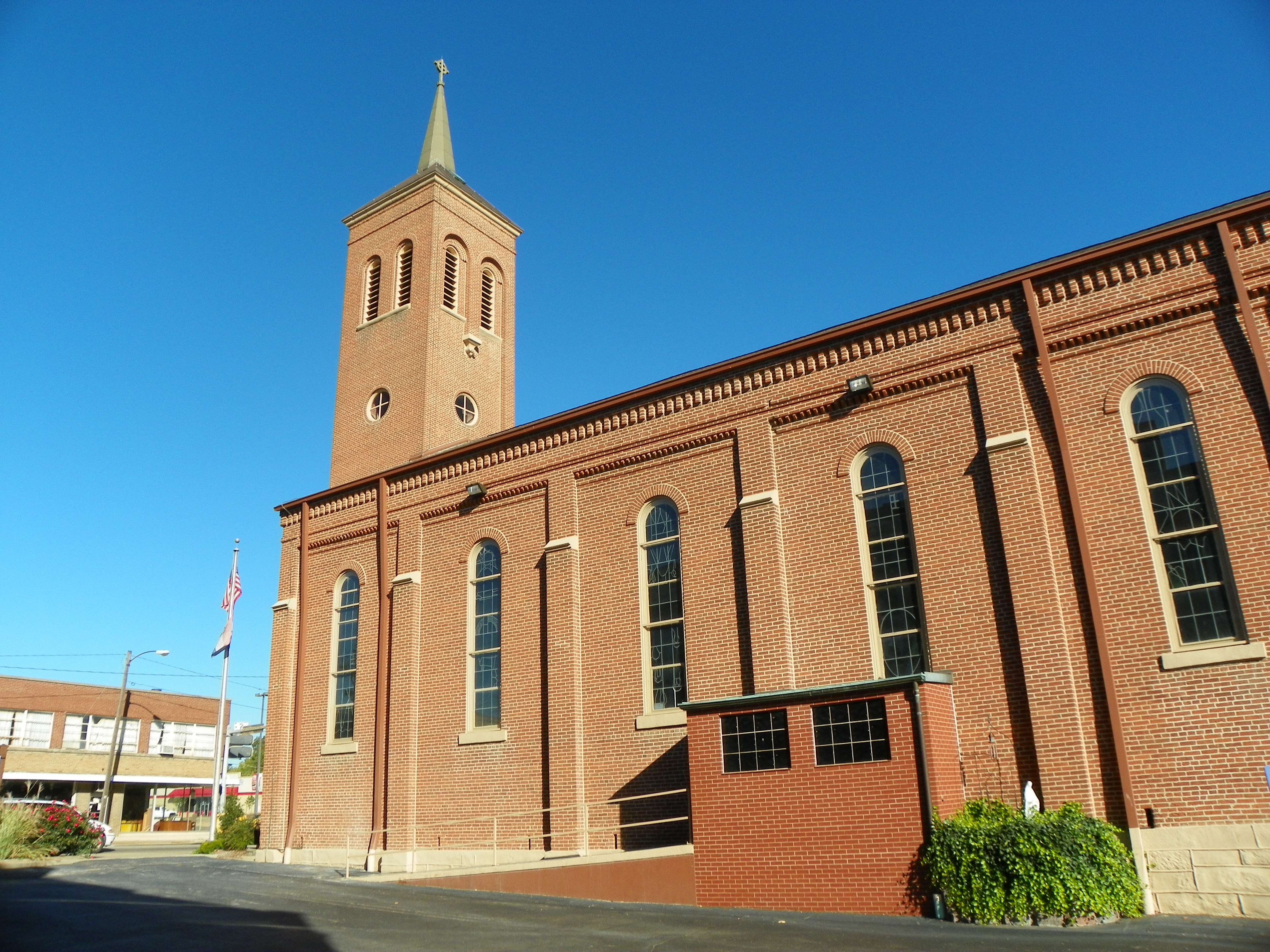 Exterior of the Cathedral of St. Mary of the Annunciation Cape Girardeau, Missouri.